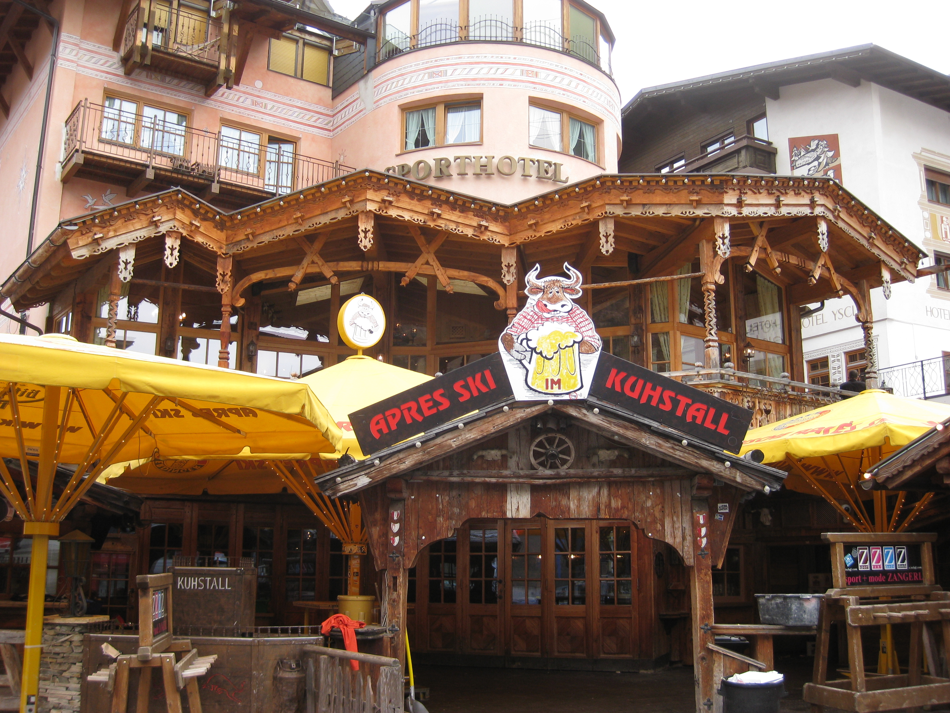 Ischgl Apres Ski place Kuhstall with Schlager music